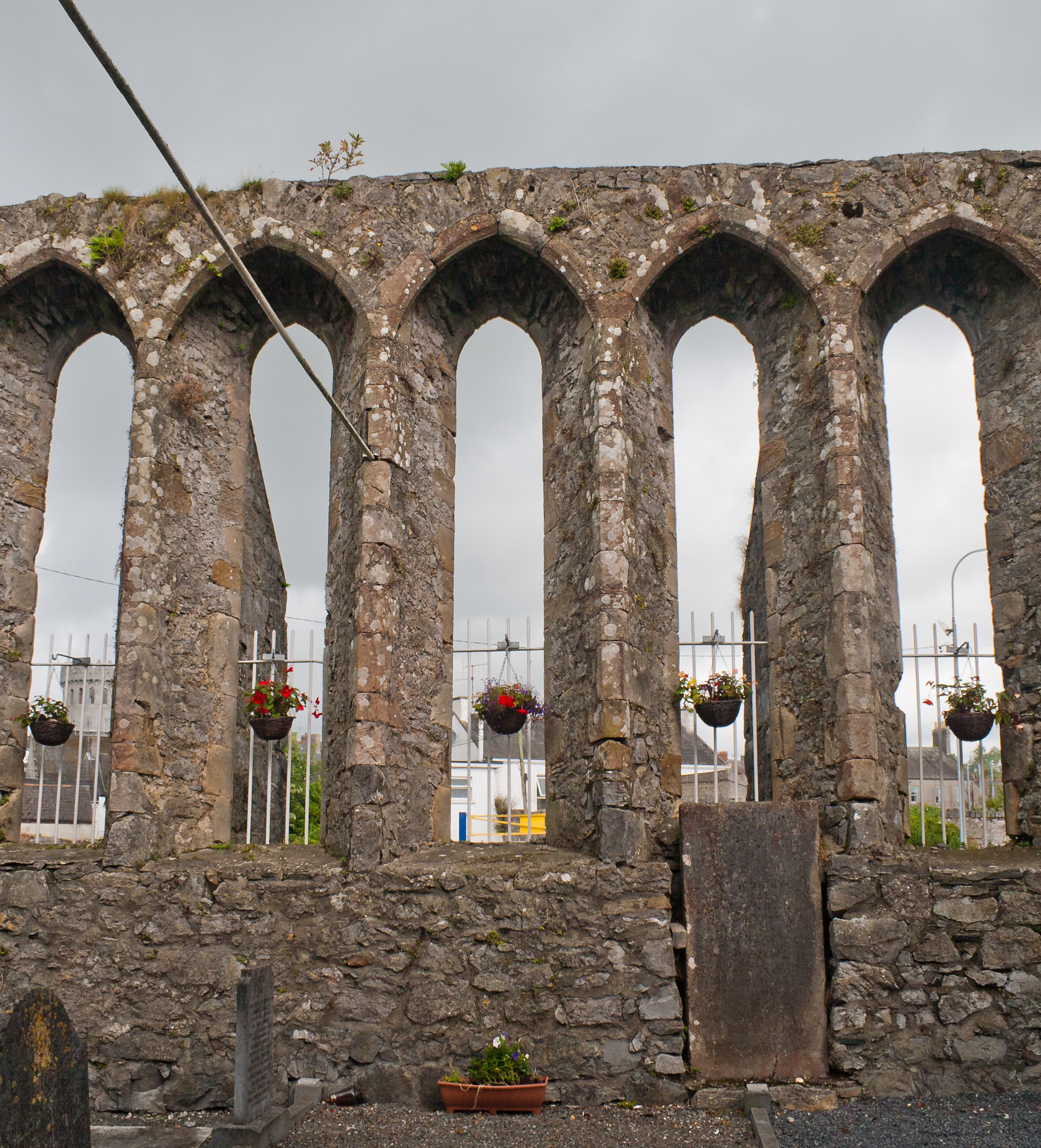 Lancet windows in the north wall of the choir.